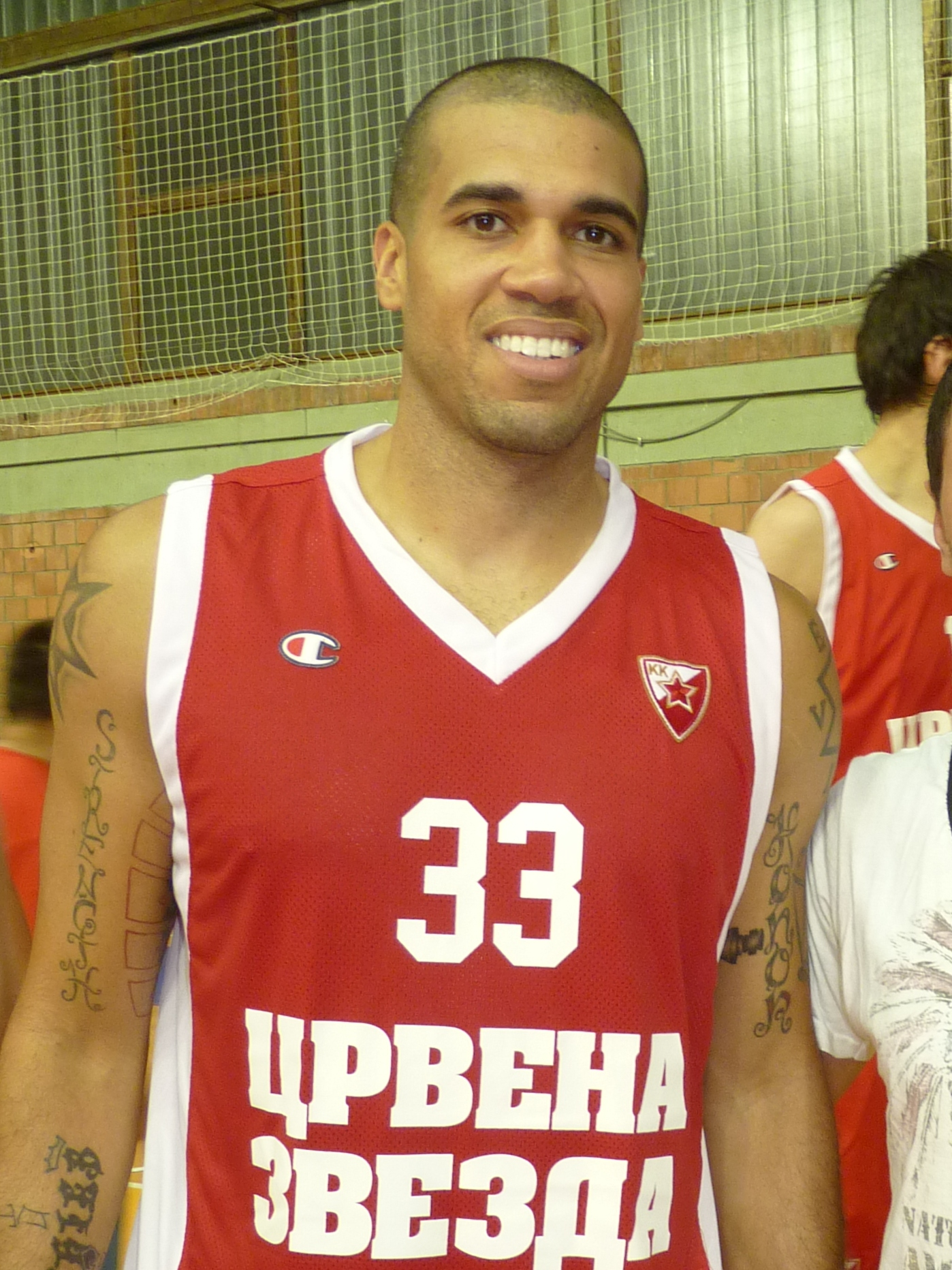 Blake Schilb, player of KK Crvena zvezda